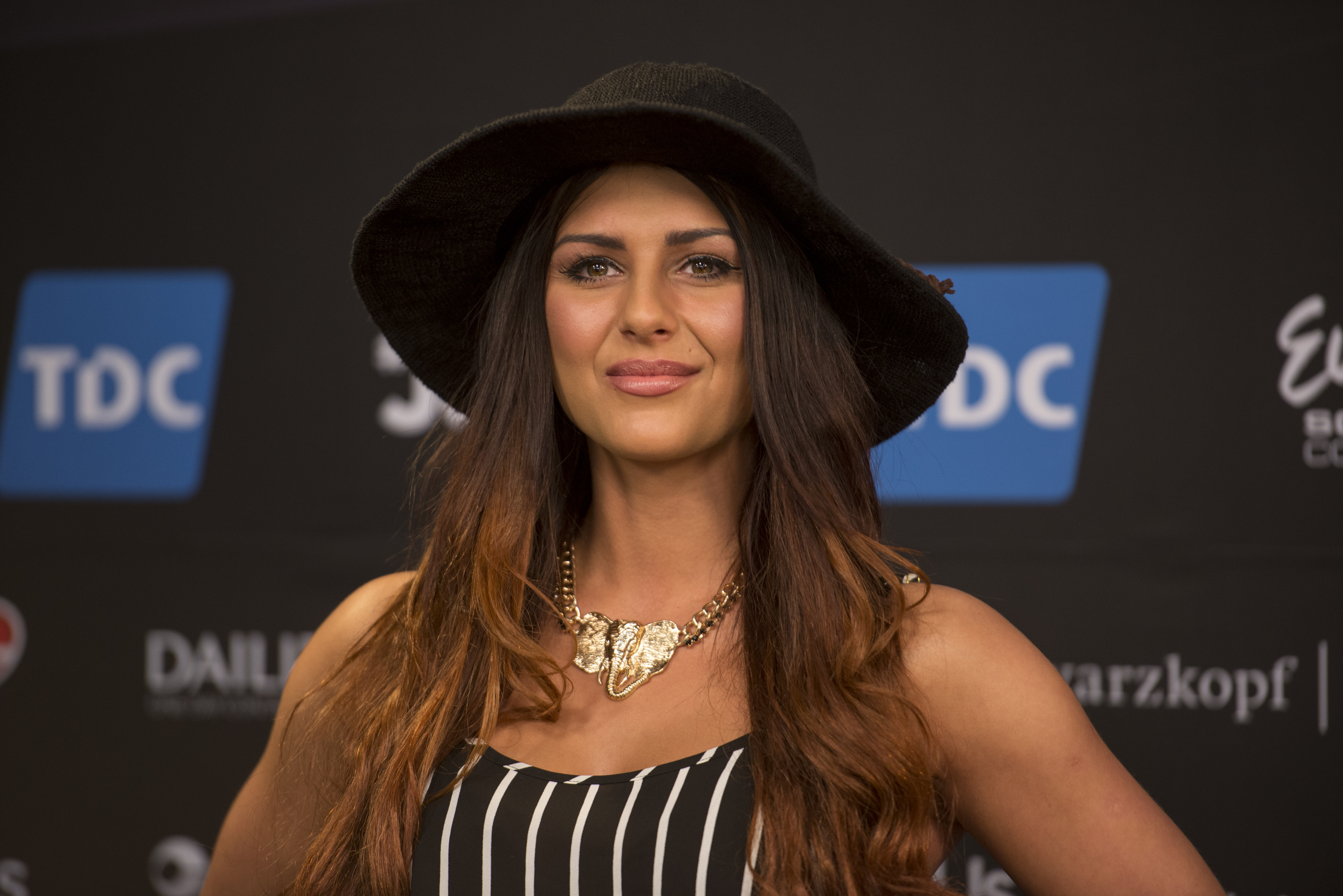 Kasey Smith from Can-linn and Kasey Smith at a Meet & Greet during the Eurovision Song Contest 2014 Copenhagen. (Help translate this text)